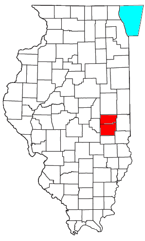 Locator map of the Charleston-Mattoon Micropolitan Statistical Area in the eastern part of the U.S. state of Illinois.